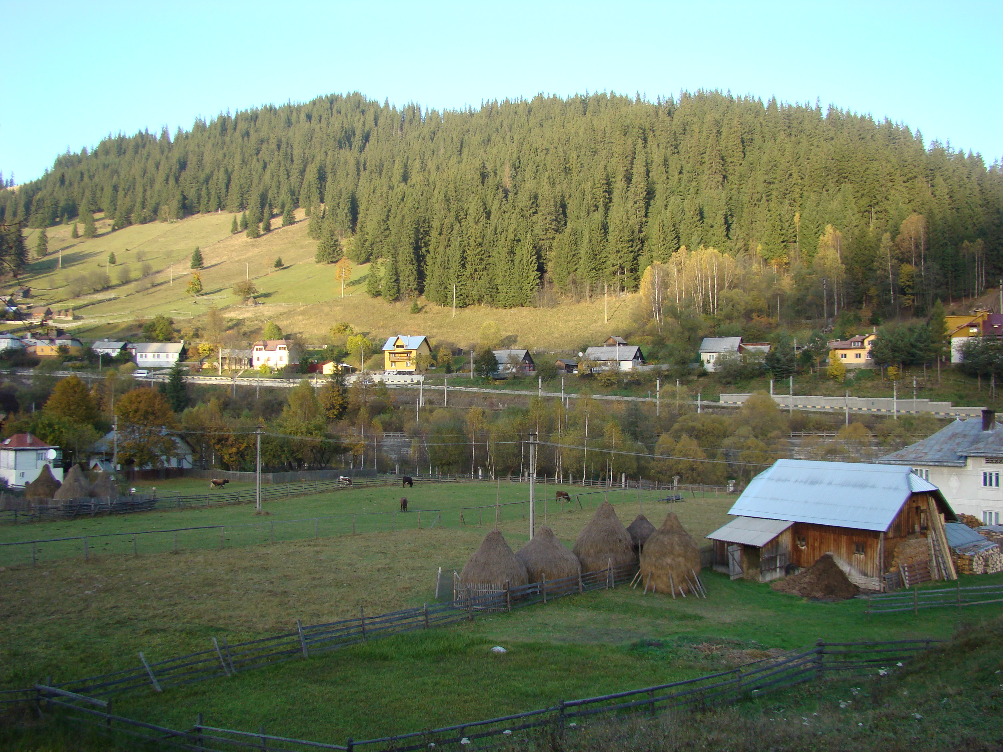 Iacobeni, Suceava county, Romania